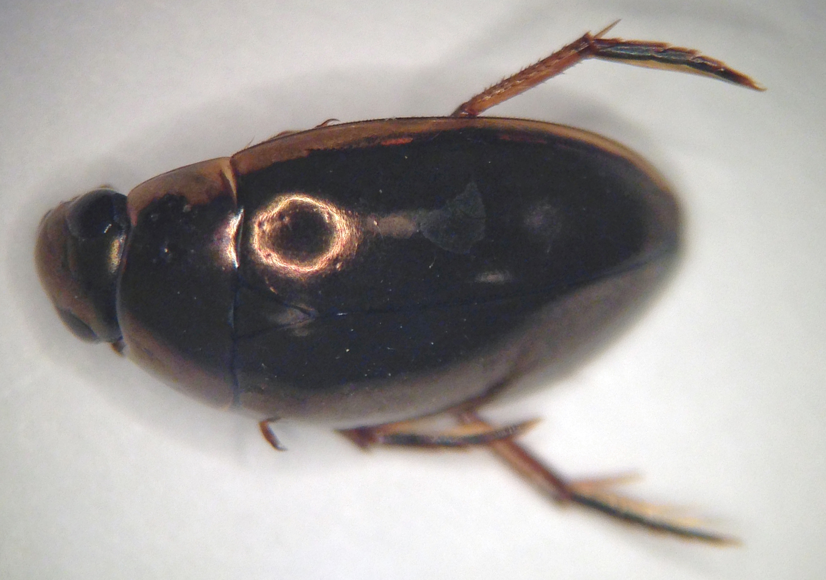 A dead adult Tropisternus lateralis collected at Tyson Research Center, Missouri in July 2013.